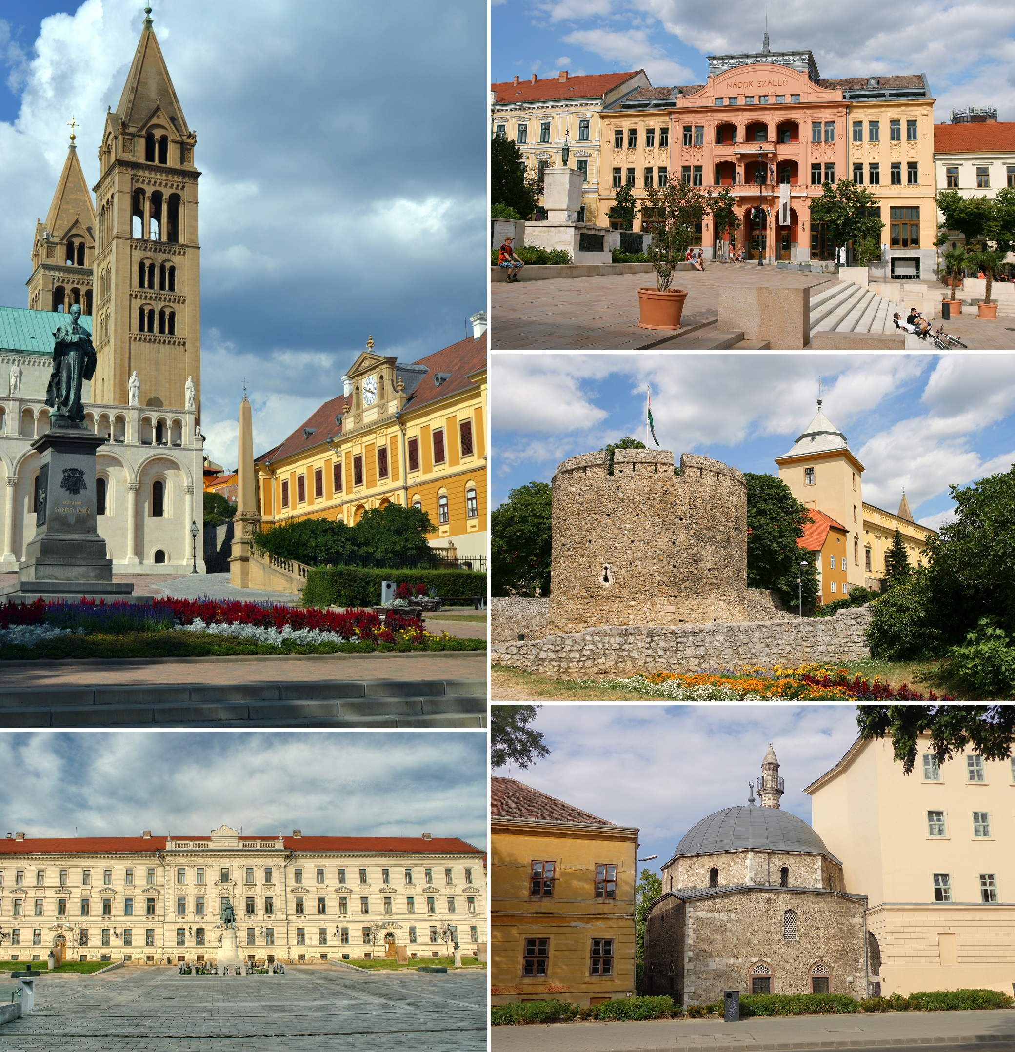 Pécs montage